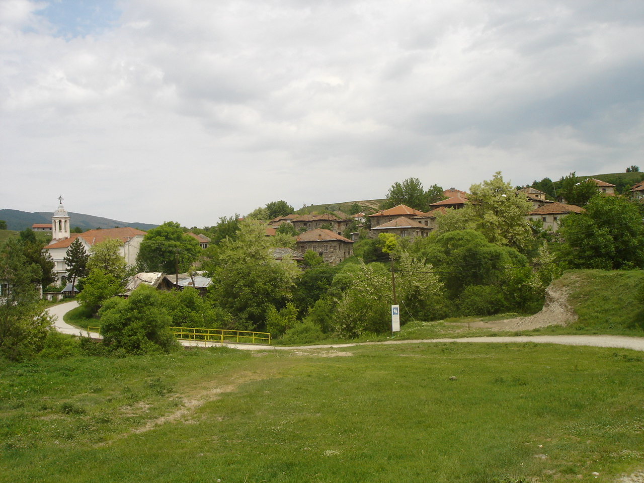 village of Vitolishte in Mariovo region, Macedonia